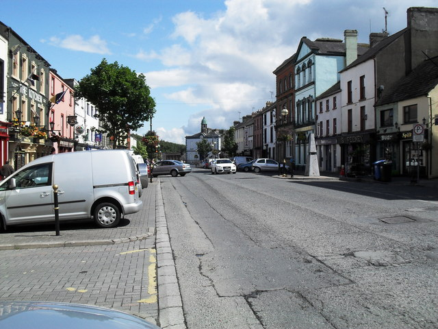 West Street, Castleblayney In the town centre.